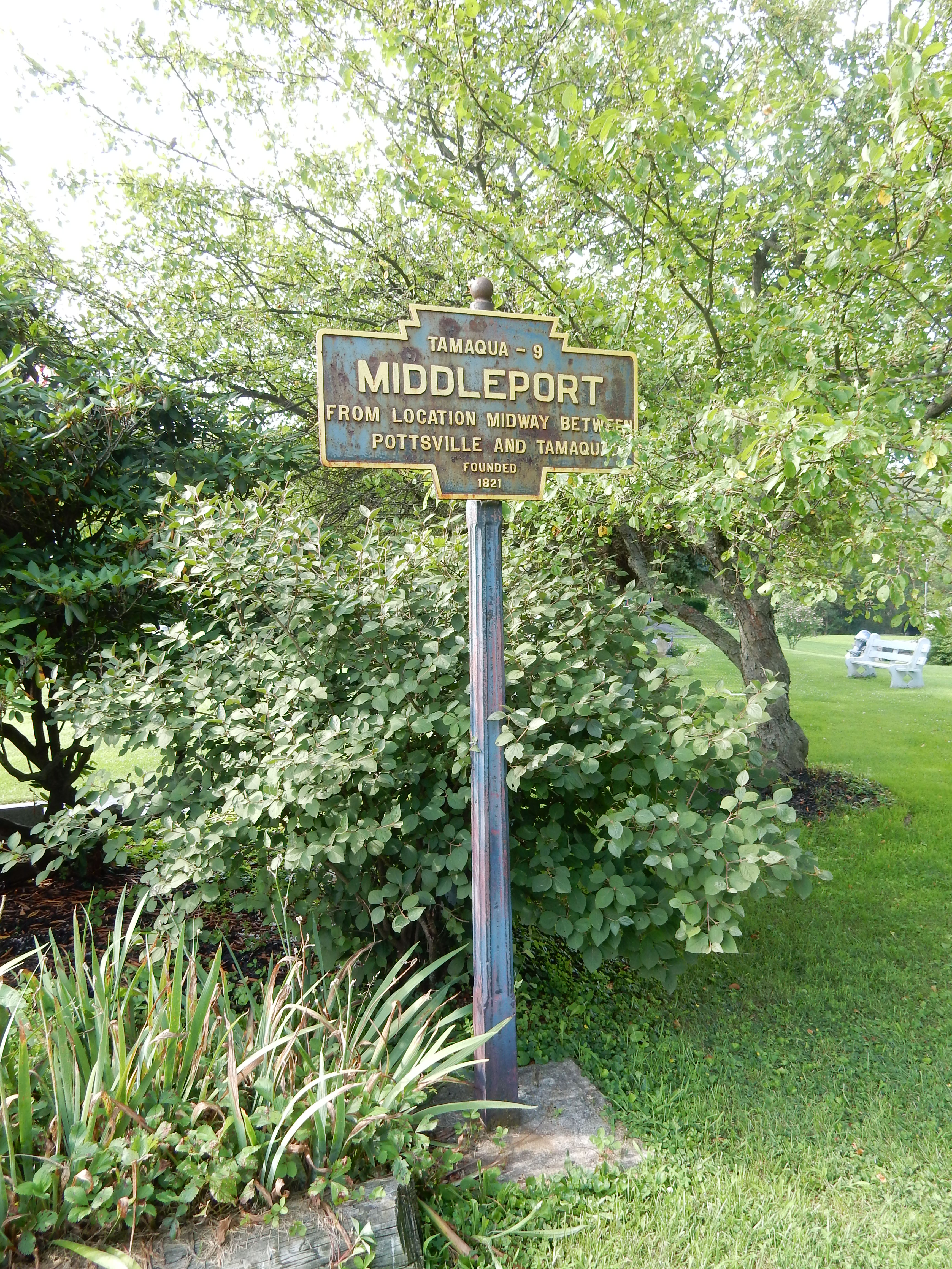 Borough Sign at War Memorial Park, Middleport, Schuylkill County, Pennsylvania. It says: Tamaqua-9. Middleport. From location midway between Pottsville and Tamaqua. Founded 1821.